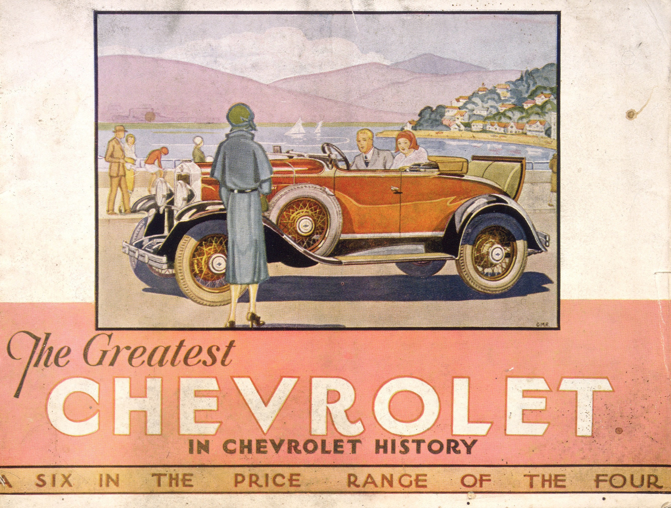 General Motors New Zealand, The greatest Chevrolet in Chevrolet history. [Catalogue cover], 1930, Photolithograph, 160 x 216 mm, Printed Ephemera Collection, Alexander Turnbull Library, Reference: Eph-A-MOTOR-VEHICLES-1930-01-cover This glamorous scene is the front cover of a beautiful colour illustrated sales catalogue for Chevrolet which was assembled locally by the General Motors factory in Petone, opened in 1926. The milestone of 1000 vehicles was reached after eight months, and by 1929, 12,000 vehicles had been assembled. Take a closer look